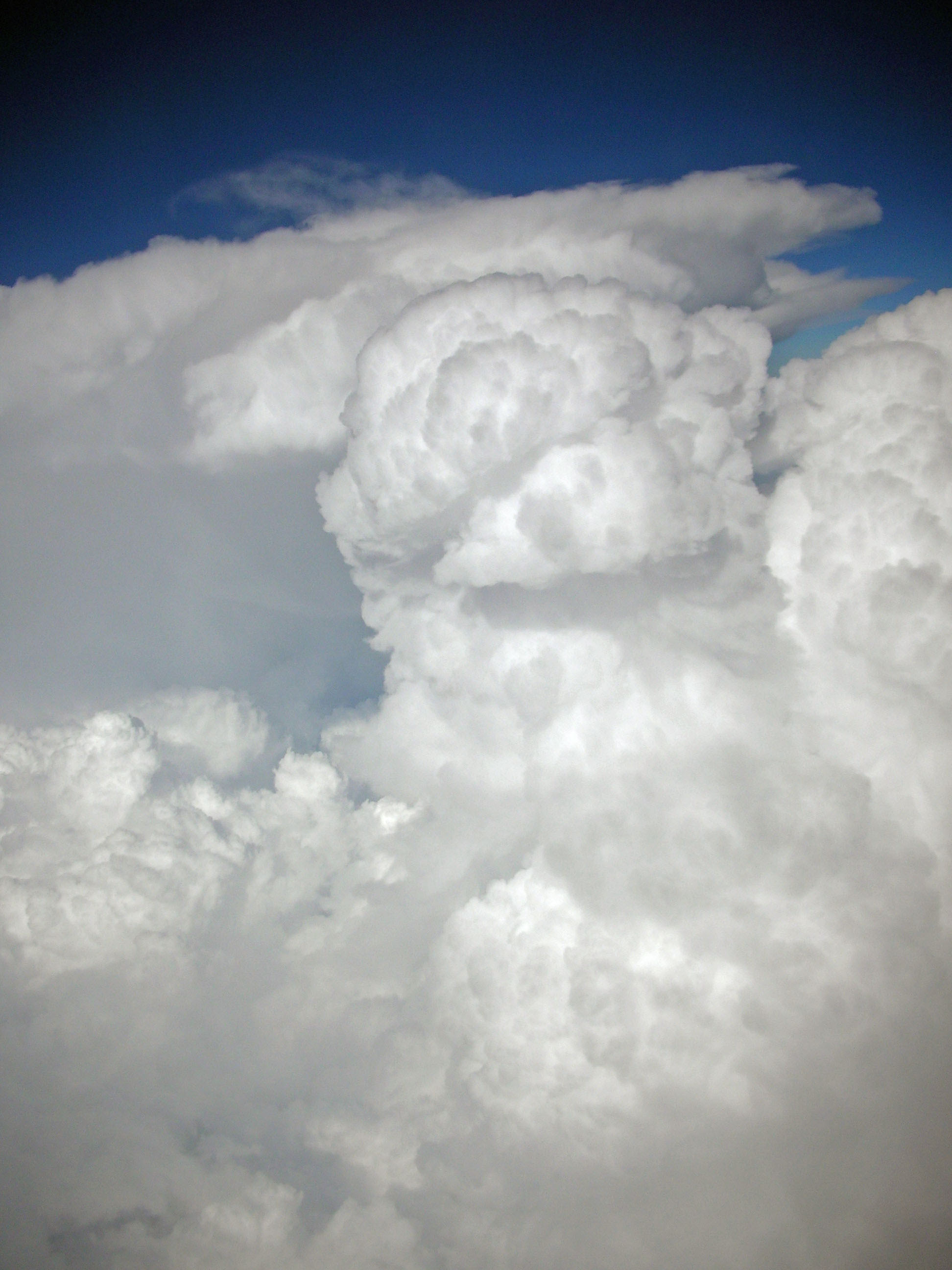 Cumulus congestus, or towering cumulus clouds, in the foreground as seen from airplane. Photo taken August 28, 2007.